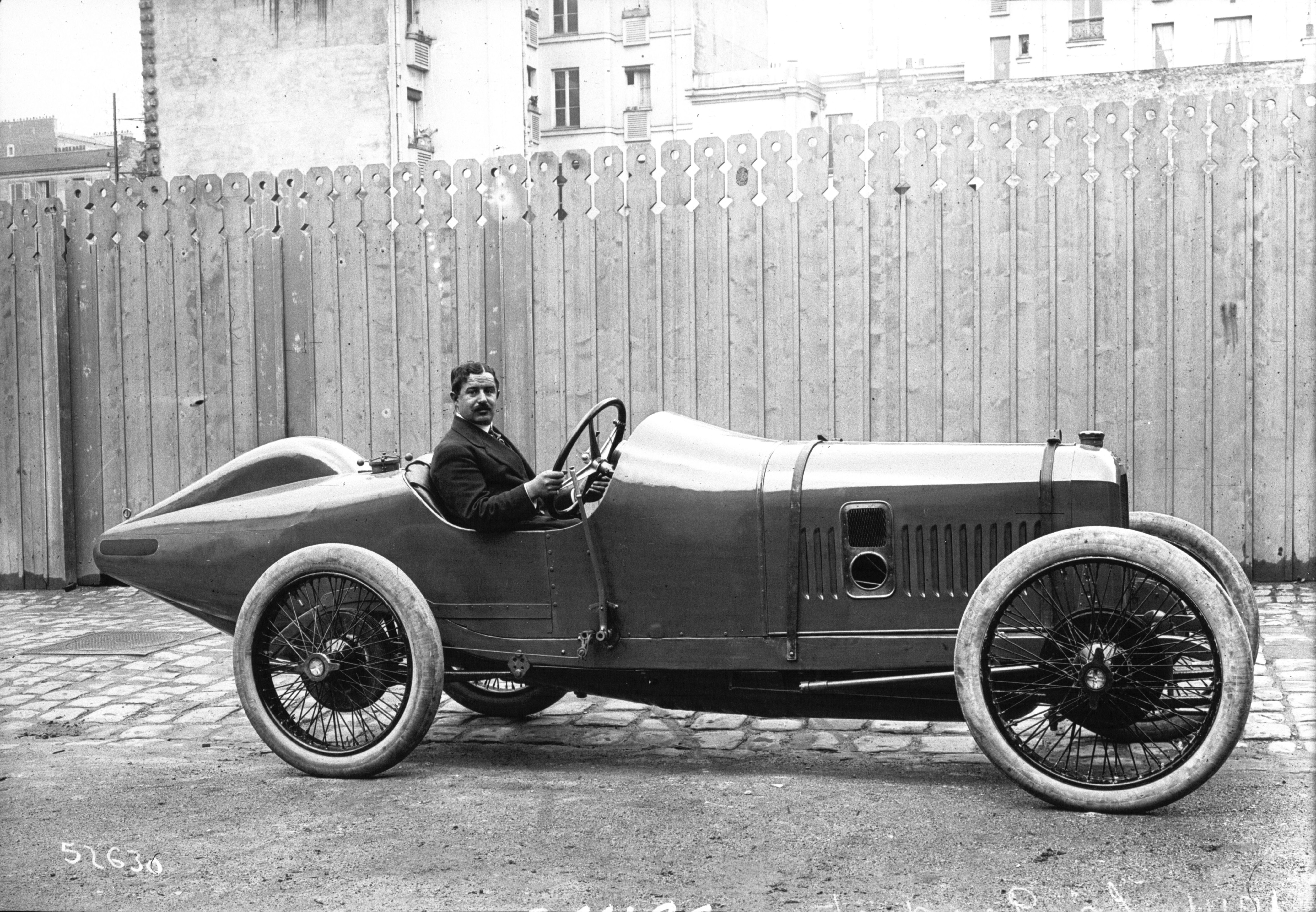 Georges Boillot at the 1914 Indianapolis 500